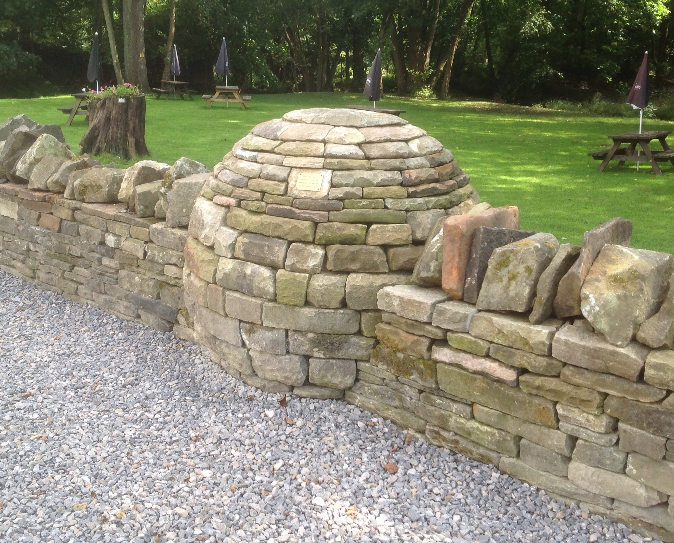 Dry stone sculpture in the boundary wall of the Fountain Inn, Parkend, Forest of Dean.